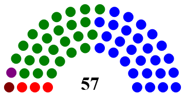 Composicion del Congreso en ese período